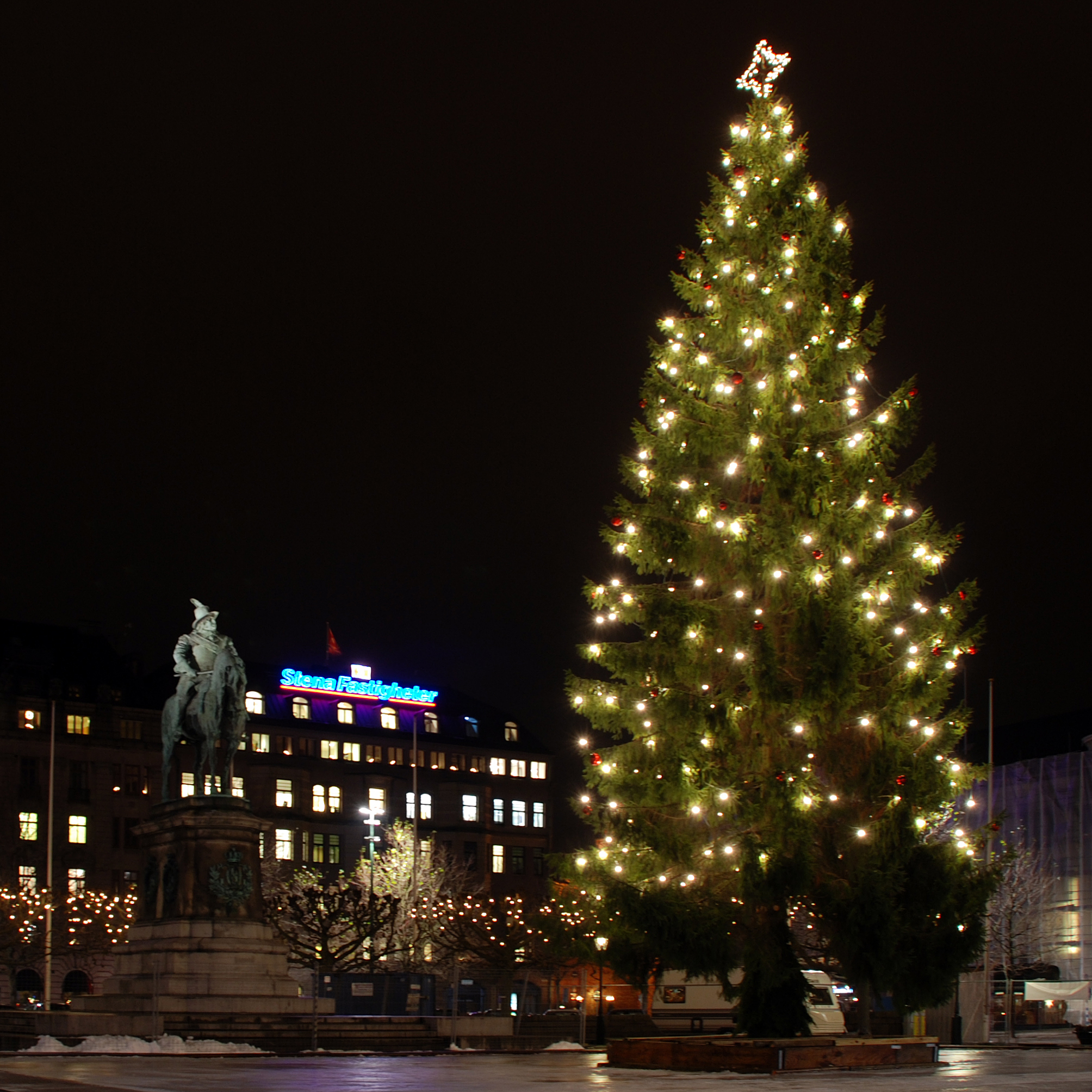 Christmas tree on Stortorget, a city square in Malmö, Sweden